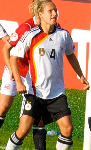 Babett Peter of the German women's national football team, during the match between Germany and Norway in UEFA Euro 2009 Women's European Championship in Tampere, Finland. (cropped from File:Euro 2009 - Germany-Norway - Goal Scrum 239.jpg)